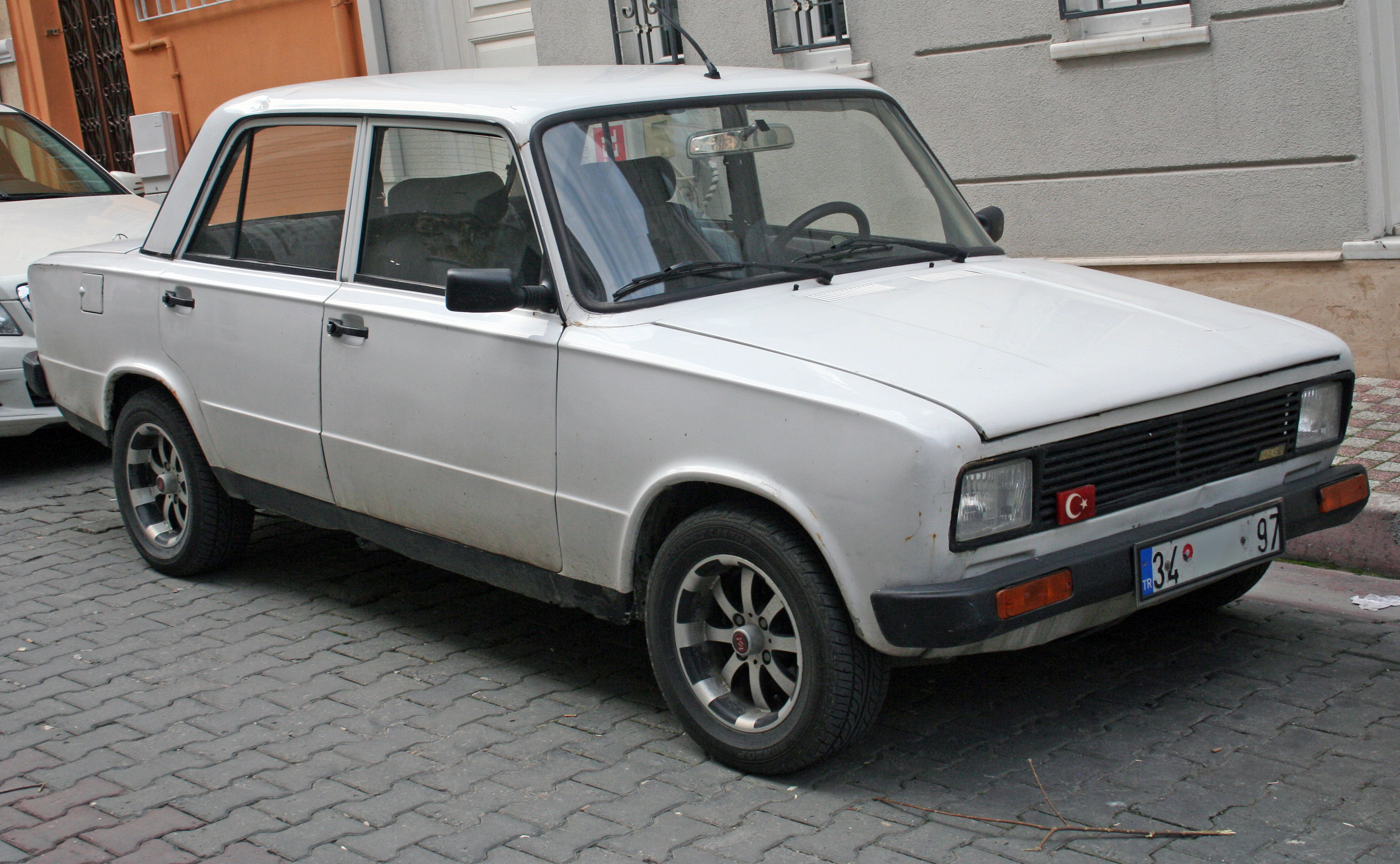 Front 3/4 view of a late model Tofaş Serçe (=Sparrow), seen in Istanbul. Sadly with non-standard wheels and various other superficial modifications.